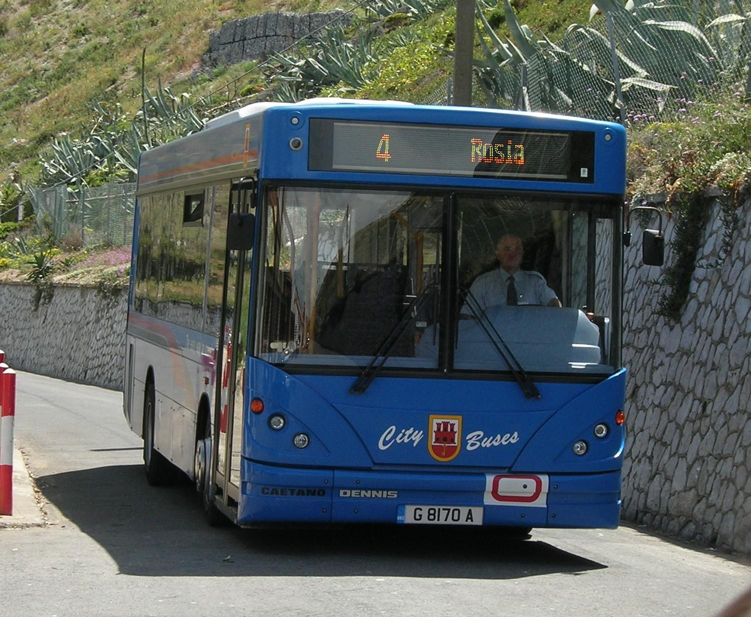 A bus of the Gibraltar City Bus Company.